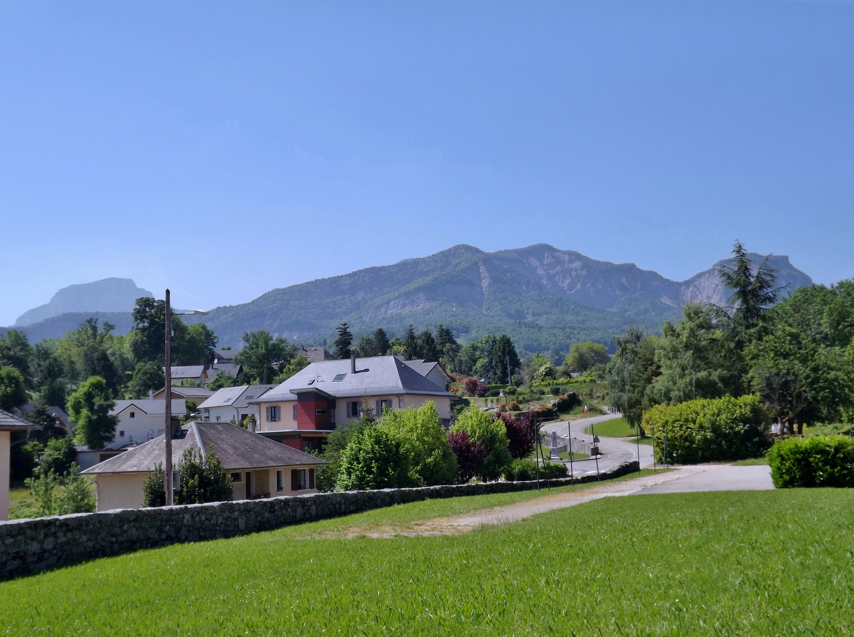 Sight of the commune of Montagnole village center, at the foot of the Chartreuse mountain range, on the heights of Chambéry, in Savoie, France.